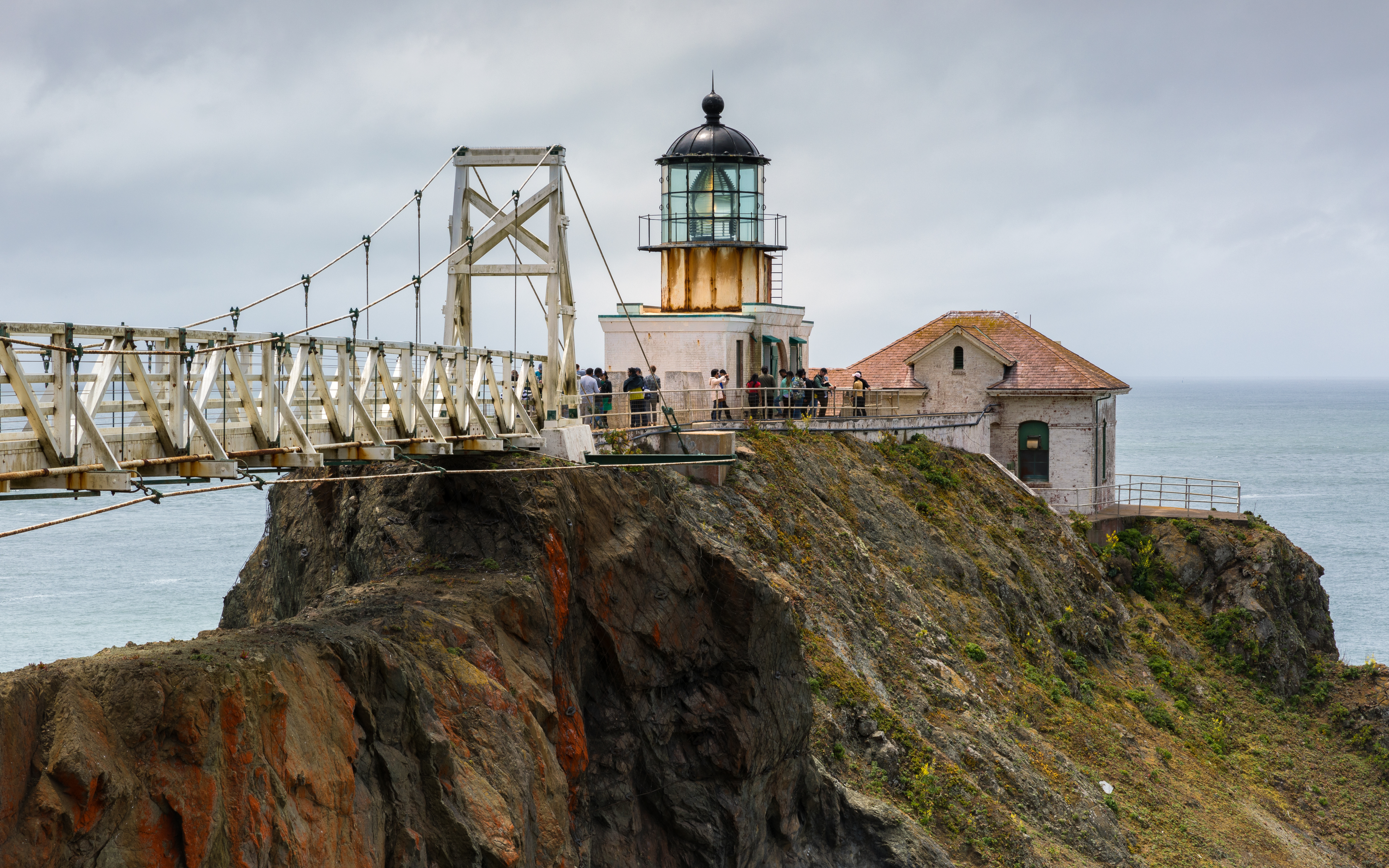 Point Bonita Lighthouse, Marin County, in May 2018